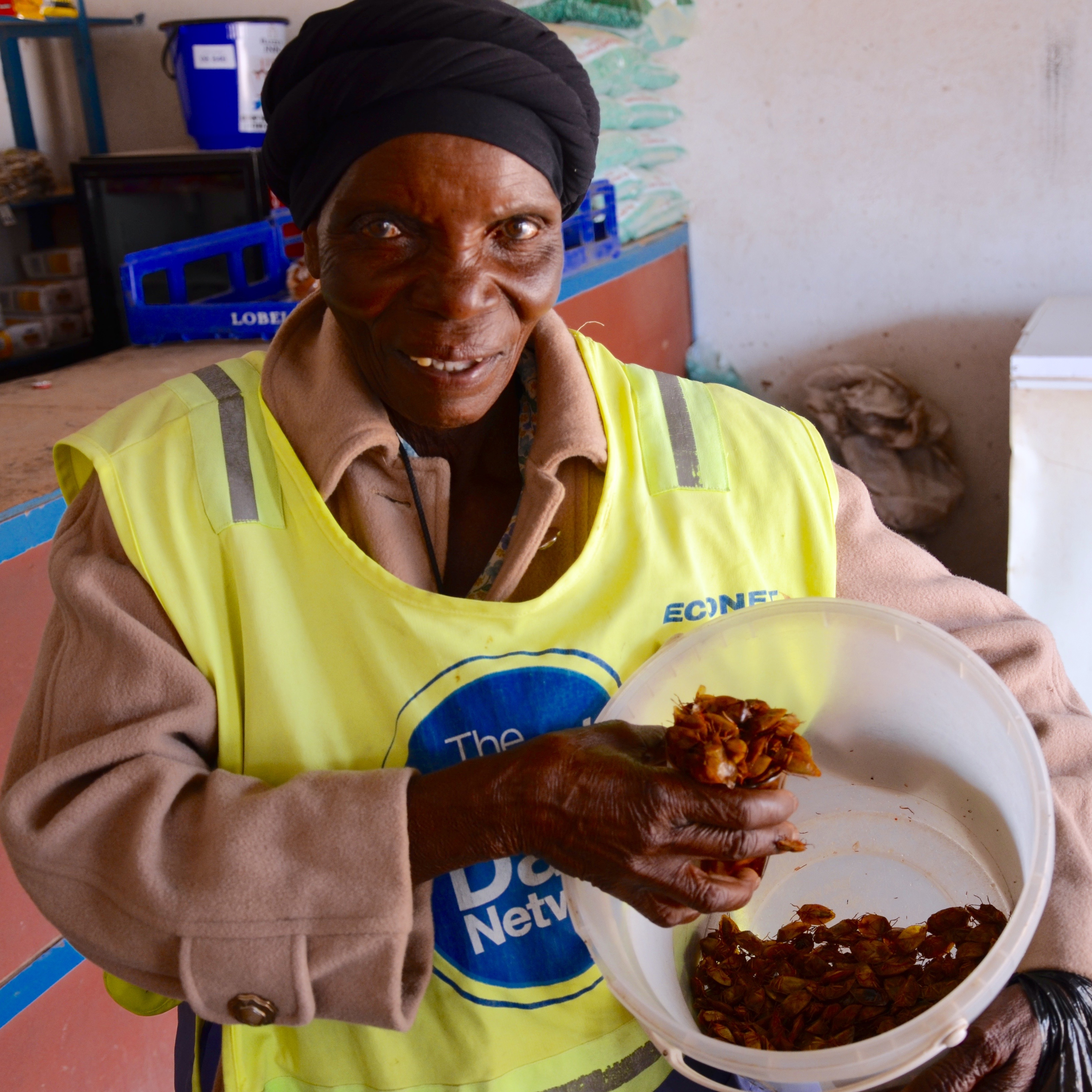 Near Nyika in the Masingo Province of Zimbabwe, this women roams from shop to shop selling a cup-full of beetles for 1 US dollar. They taste like roasted peanuts and have the texture of popcorn. We gave her 50 cents to try two beetles. She grinned broadly and promptly handed the coin over to the shop owner for a cold soda. Her yellow vest also indicates that she is an authorized seller of airtime vouchers. This is an image of "African people at work" from Zimbabwe